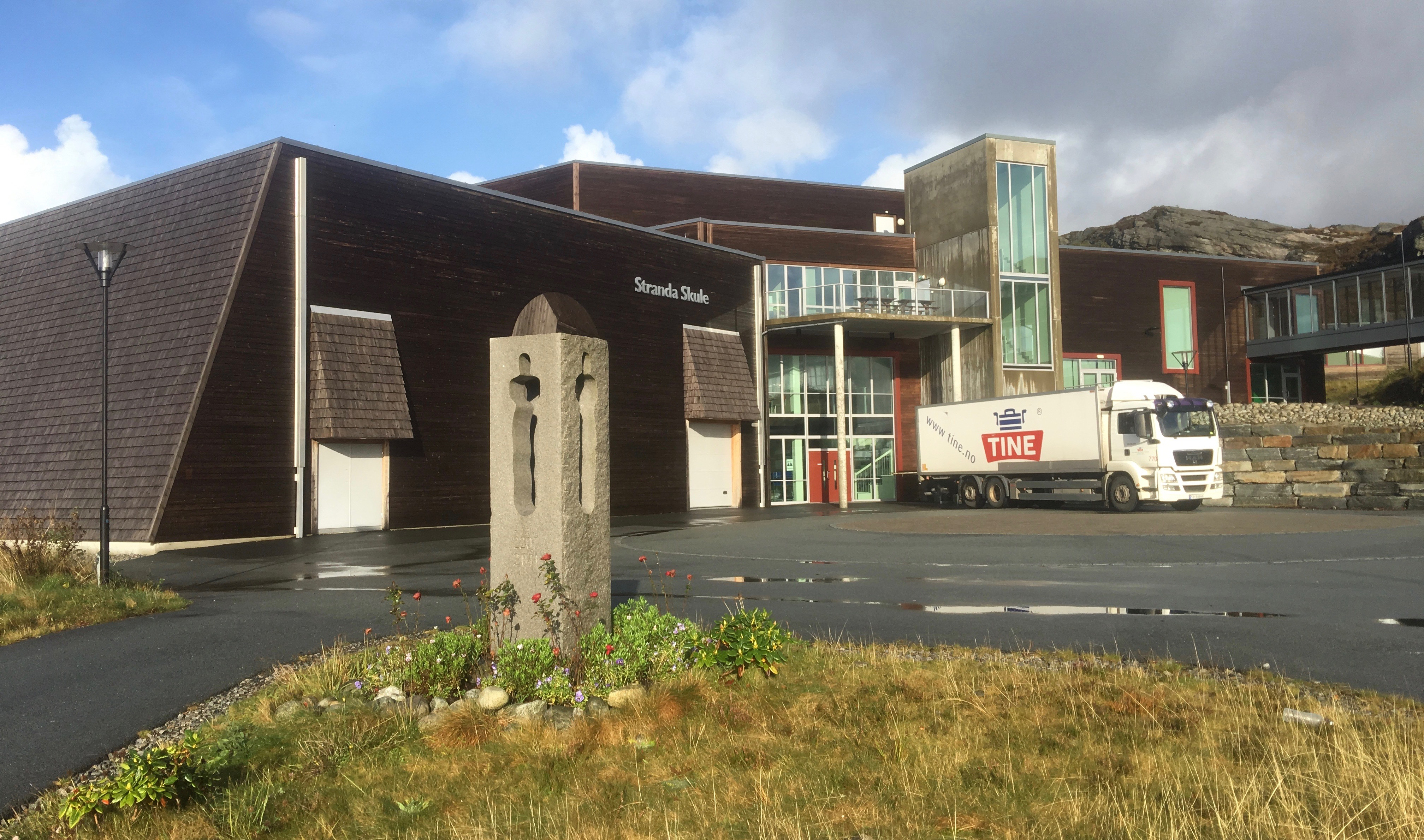 Stranda skule, a primary school built 2012-2013 in the Municipality of Sund on the island of Sotra in Hordaland, Norway. Monument by Nico Widerberg. Truck from Tine (Norwegian Diary Company) delivering milk to the school children.